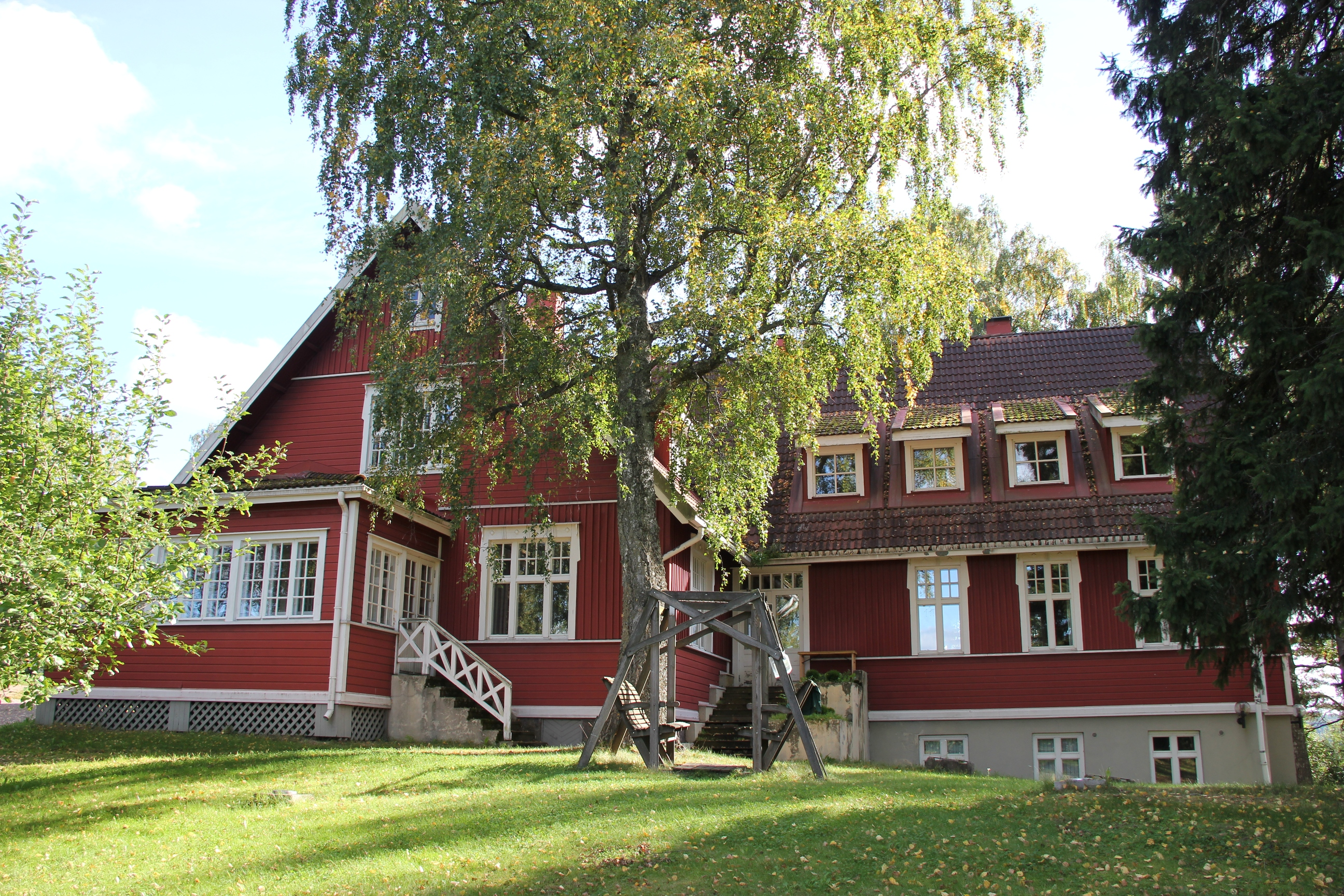 Lepopirtti of Siuntion kylpylä (spa), event and meeting venue, Siuntio, Finland